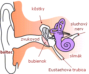 ear anatomy, sk description